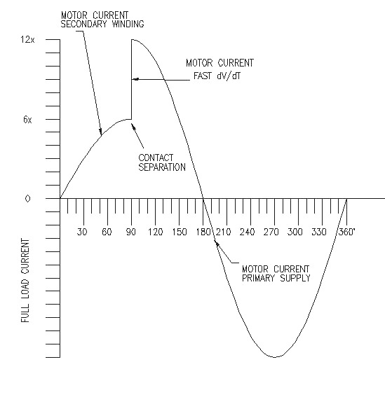 updated figure 10